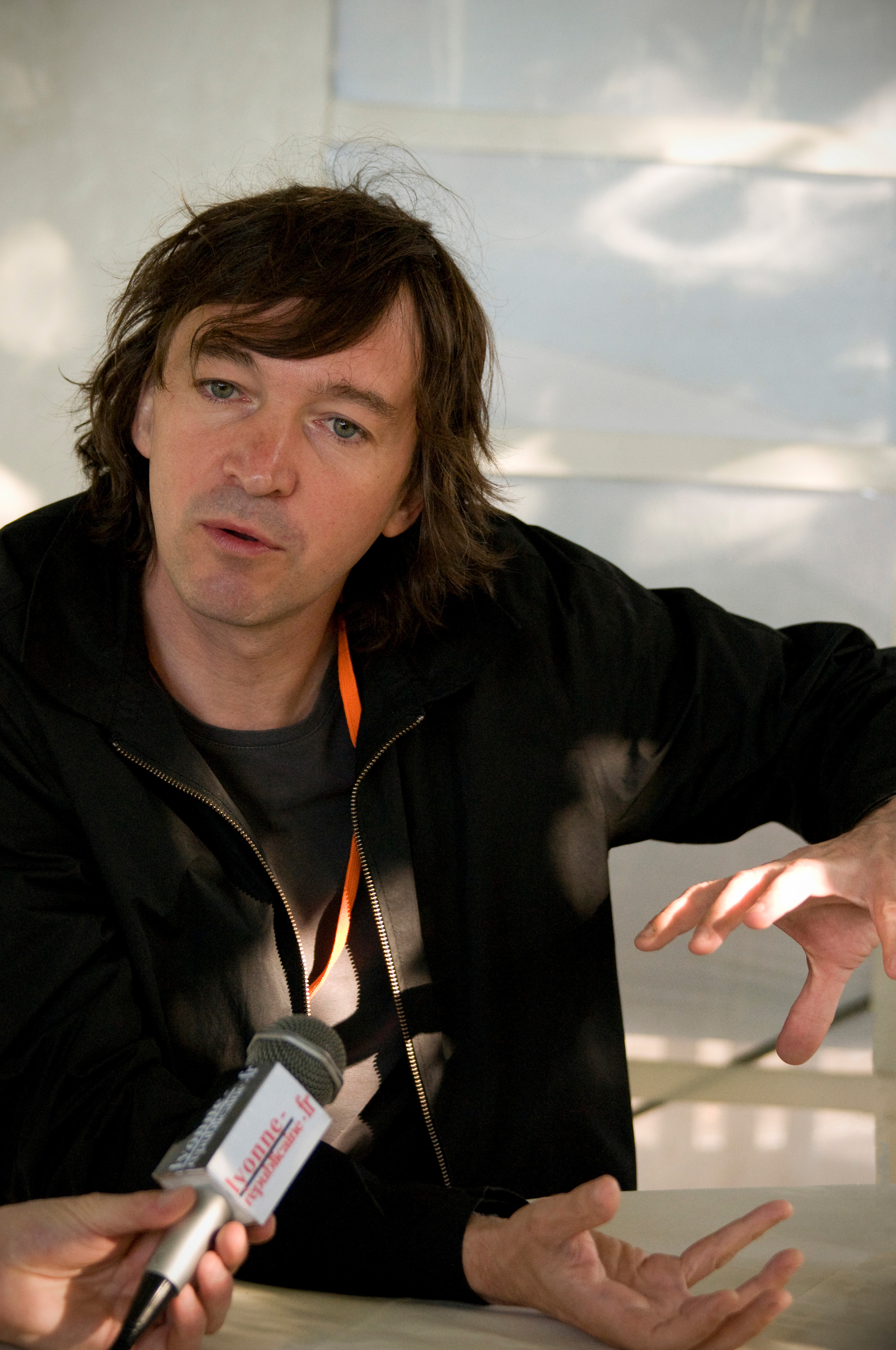 Conference with Cali at Aux Zarbs festival 2008 (Auxerre, France).